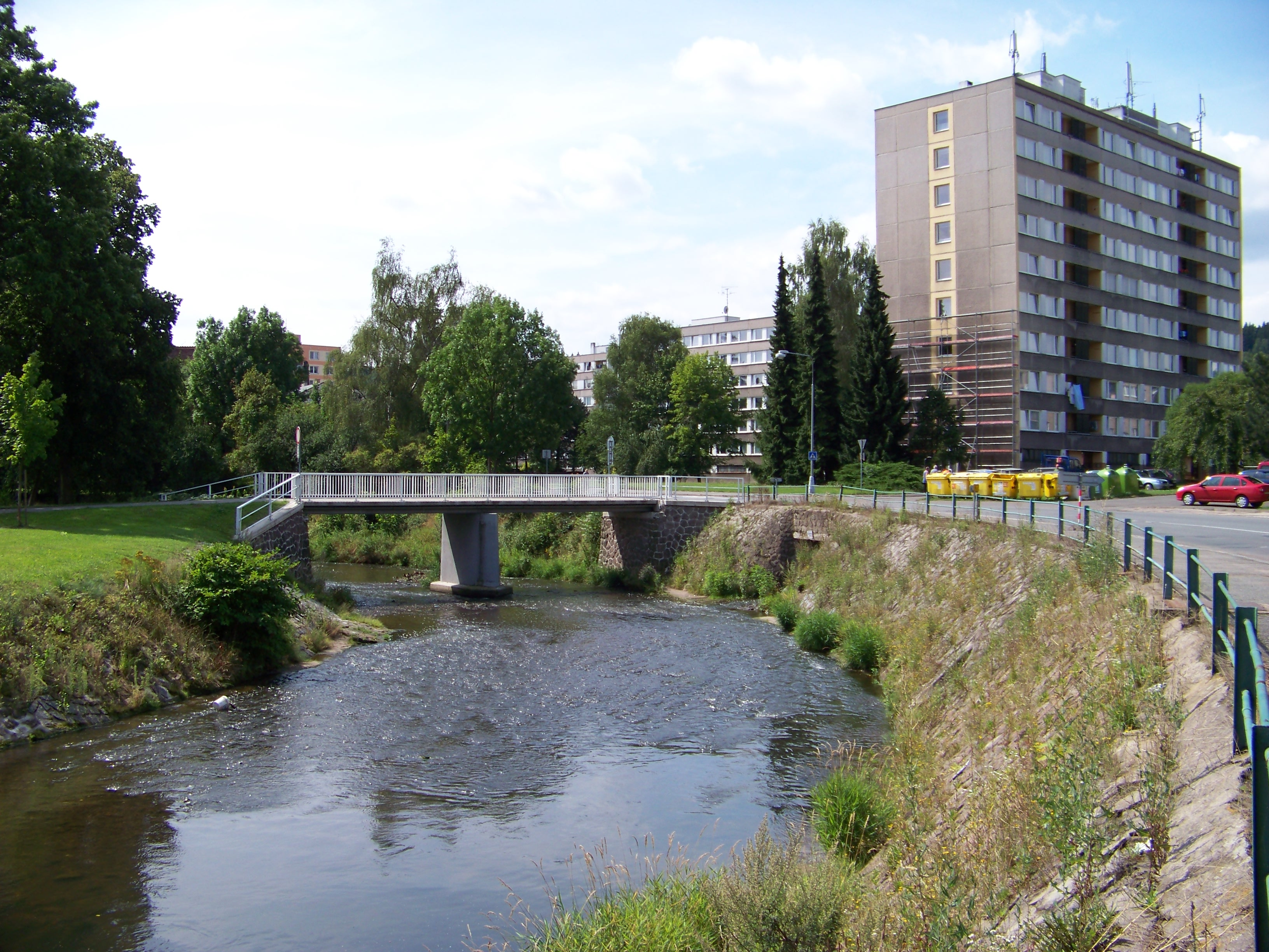 Hronov, Náchod District, Hradec Králové Region, Czech Republic. A bridge over the Metuje river, Hostovského street.